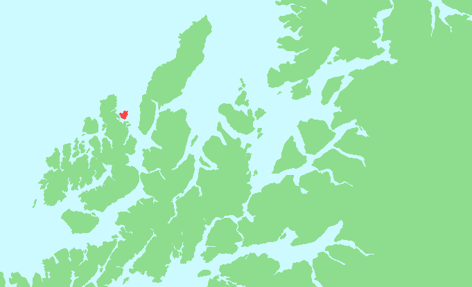 Locator map of Gisøya, Nordland, Norway